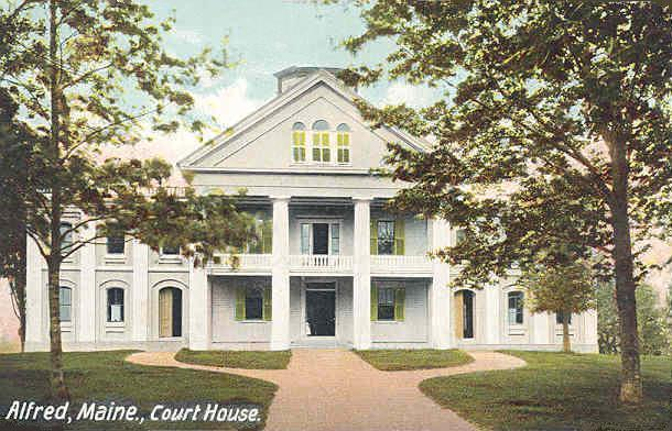 York County Courthouse, Alfred, ME; from a 1908 postcard.